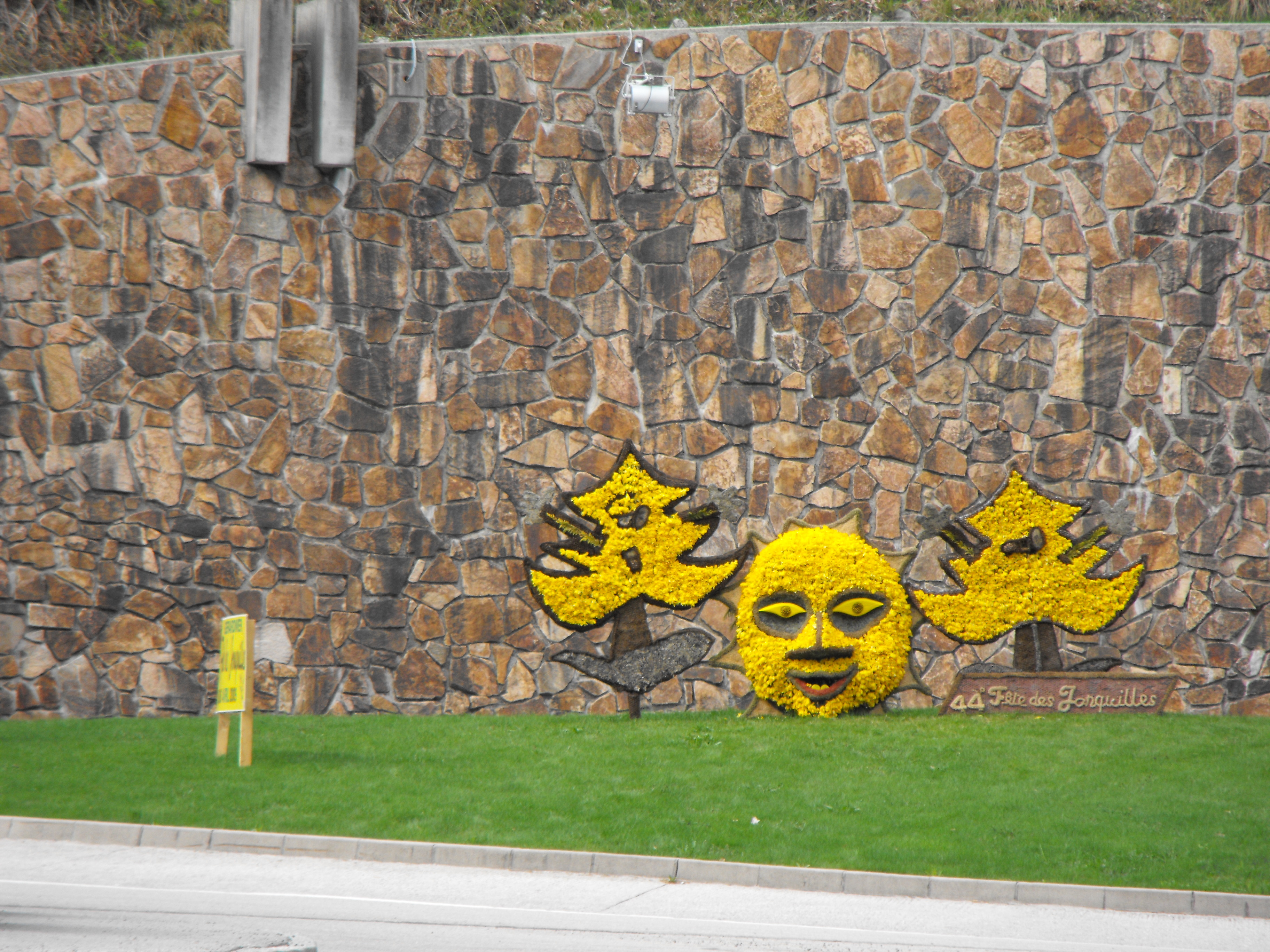 44th Festival of daffodils.